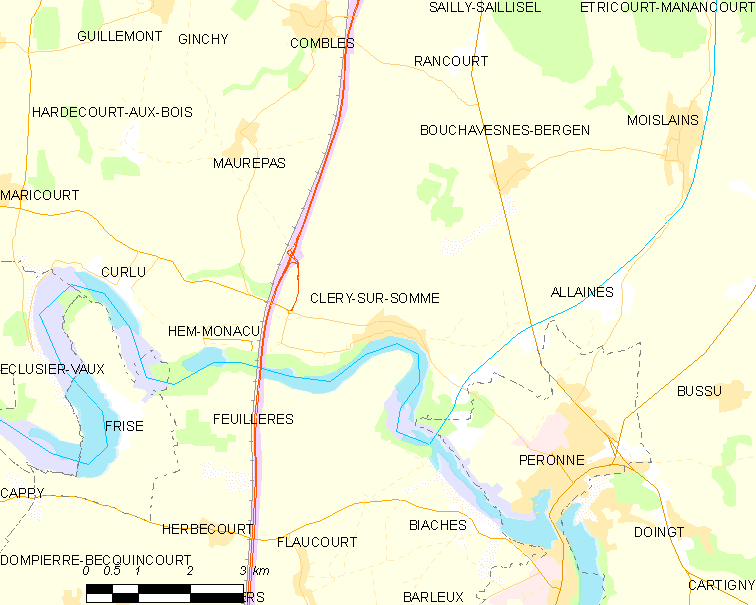 Map of French municipality Cléry-sur-Somme